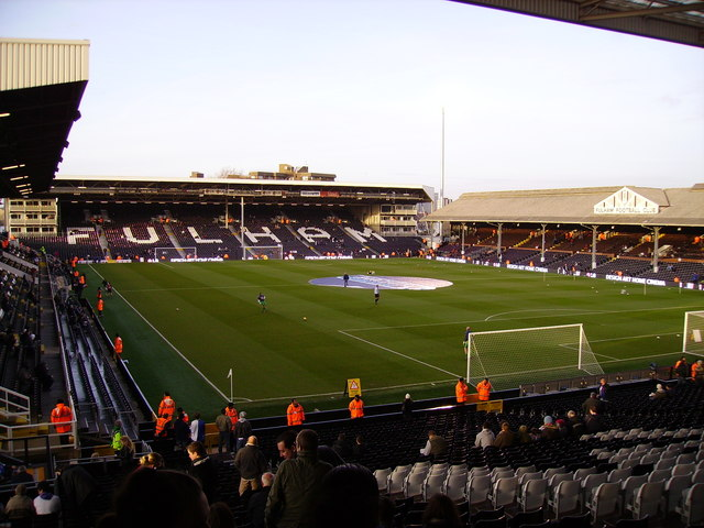 Craven Cottage Football Ground, near to Fulham, Hammersmith And Fulham, Great Britain. Craven Cottage Football Ground, home of Fulham FC